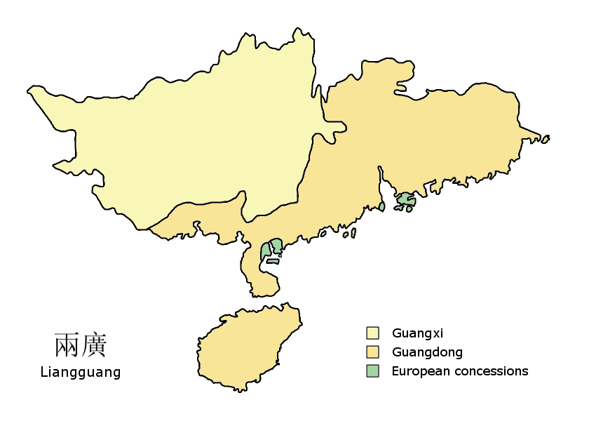 Liangguang (Guangxi and Guangdong) borders circa 1900 (a few years before the end of the Qing Dynasty of China)